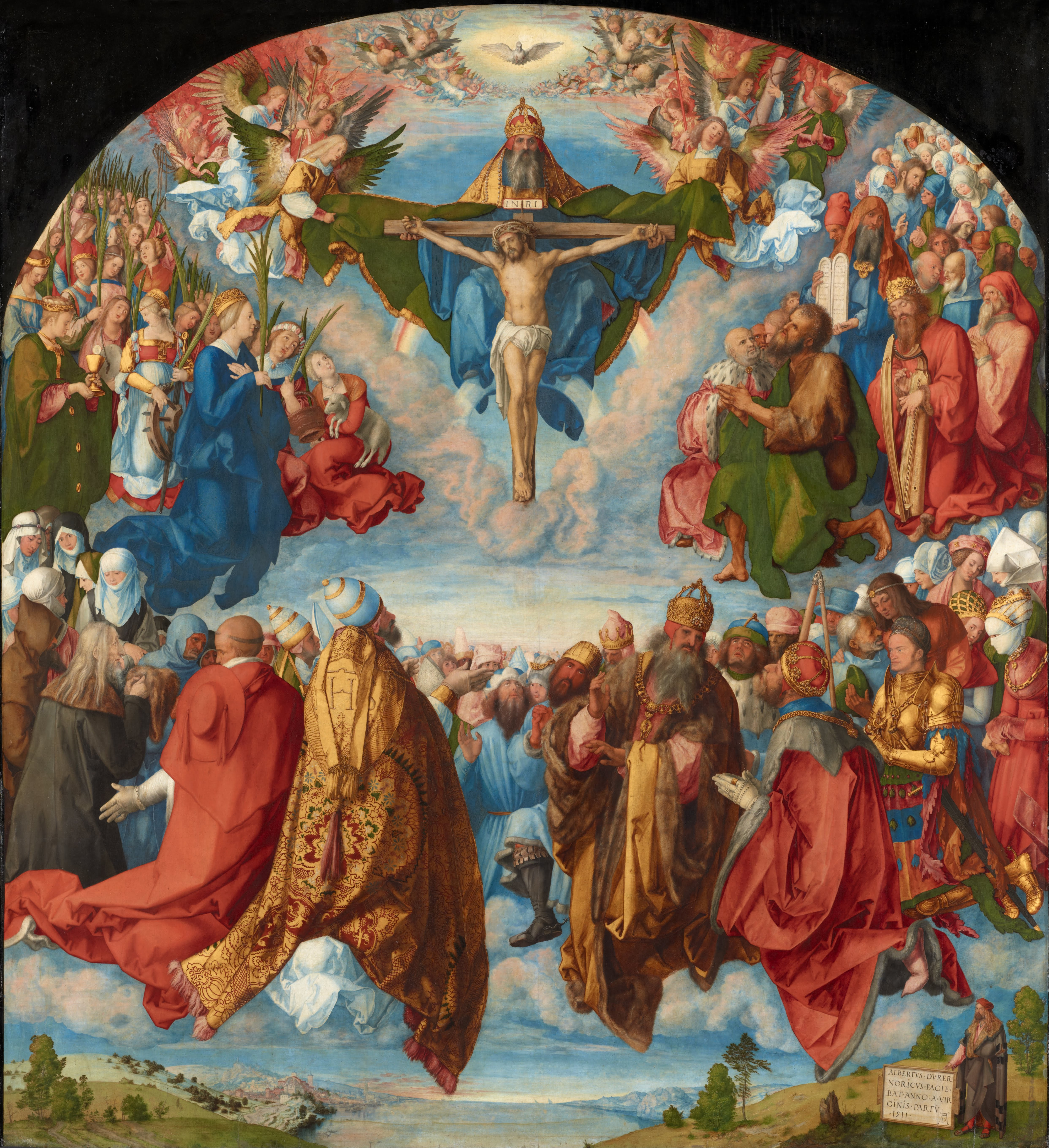 on the left is kneeling donator Matthäus Landauer, on the right Albrecht Dürer, also are depicted Dorothea Haller and Wilhelm Haller